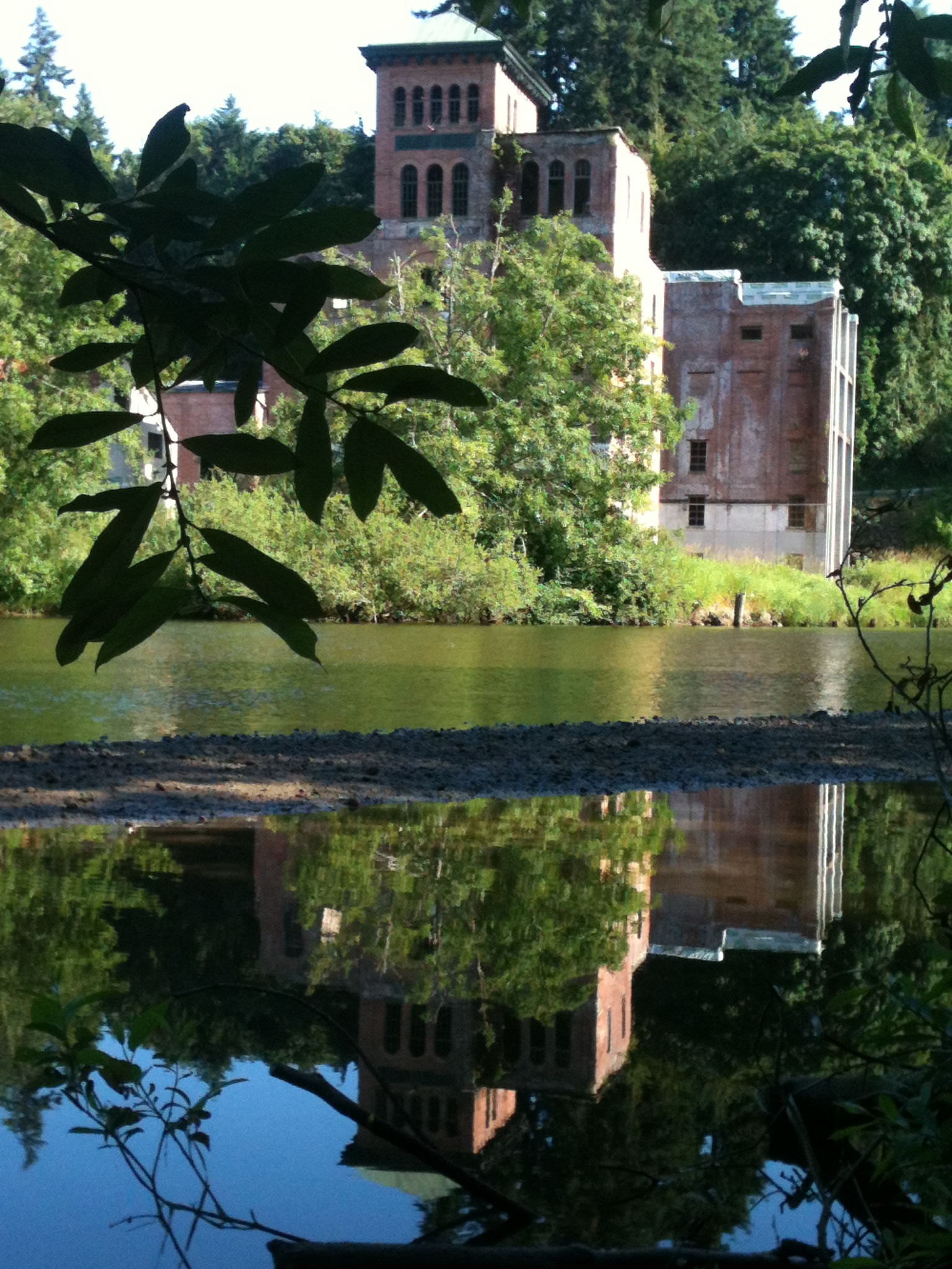 The original brewery that produced Olympia Beer as seen in 2012. Tumwater, WA.